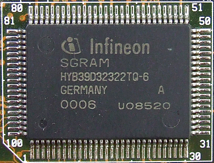 Infineon HYB39D32322TQ-6, a 4 MB DDR-SGRAM memory chip.